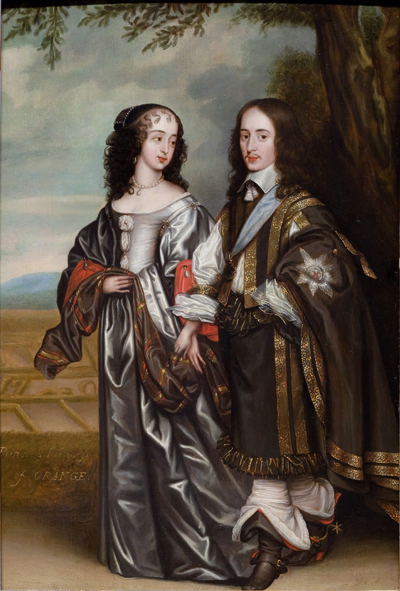 William II, Prince of Orange and Mary Henrietta Stuar oil on canvas 46 x 31.5 cm ca. 1650